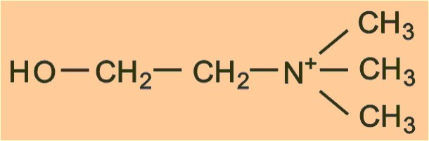 choline formula jpg